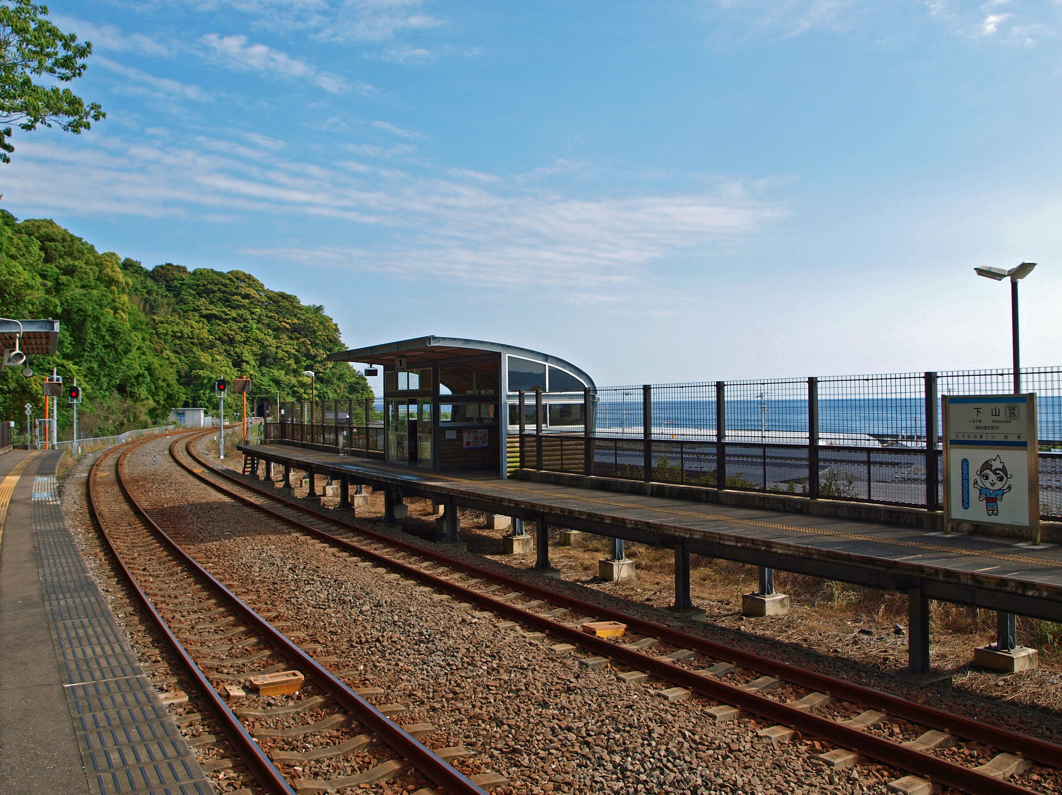 Shimoyama Station, Gomen-Nahari Line（Asa Line), Tosa Kuroshio Railway, Japan